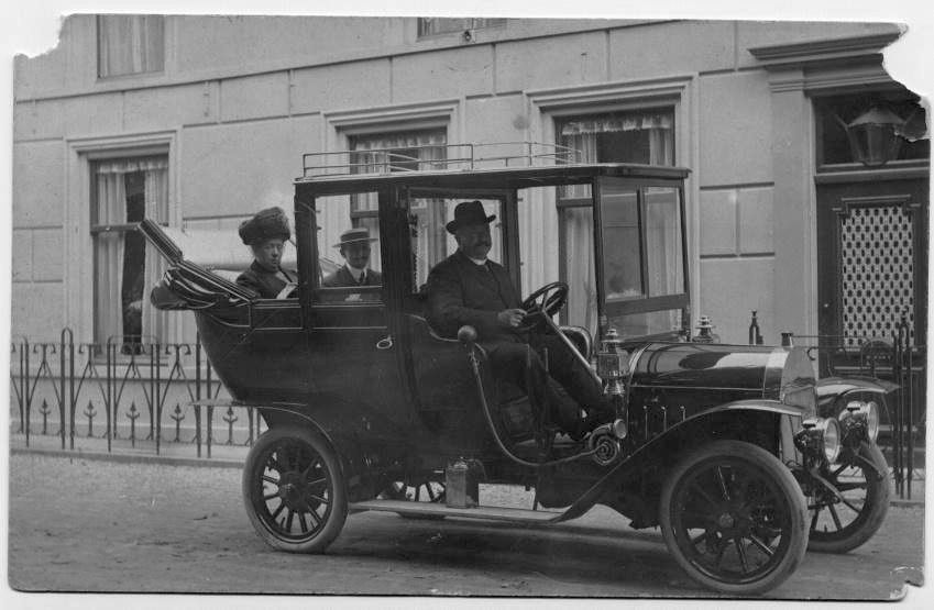 Photographer and movie director M.H. Laddé at the wheel of his Willys-Knight in front of his house in Nigteveld. On the left To Laddé-de Rijke (wearing fur headgear).